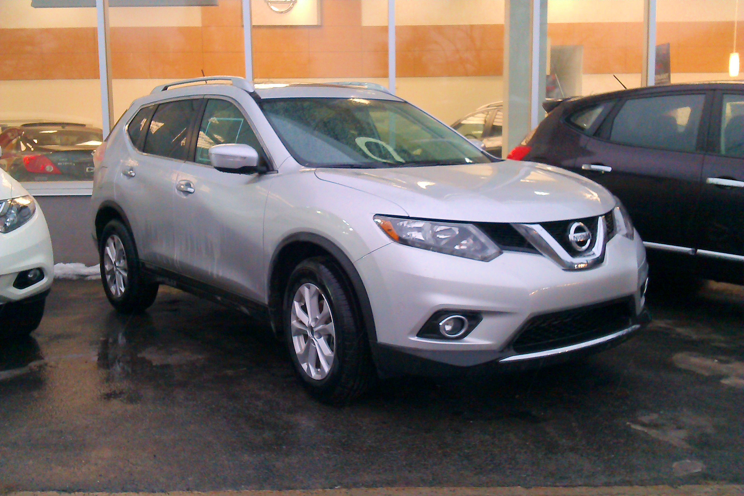 The 2014-15 Nissan Rogue photographed at Cité Nissan dealership in Montreal, Quebec, Canada. Front 3/4 view.